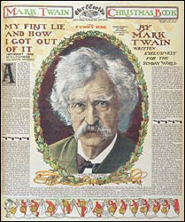 Cover of the New York World, Christmas 1899, featuring a story by Mark Twain